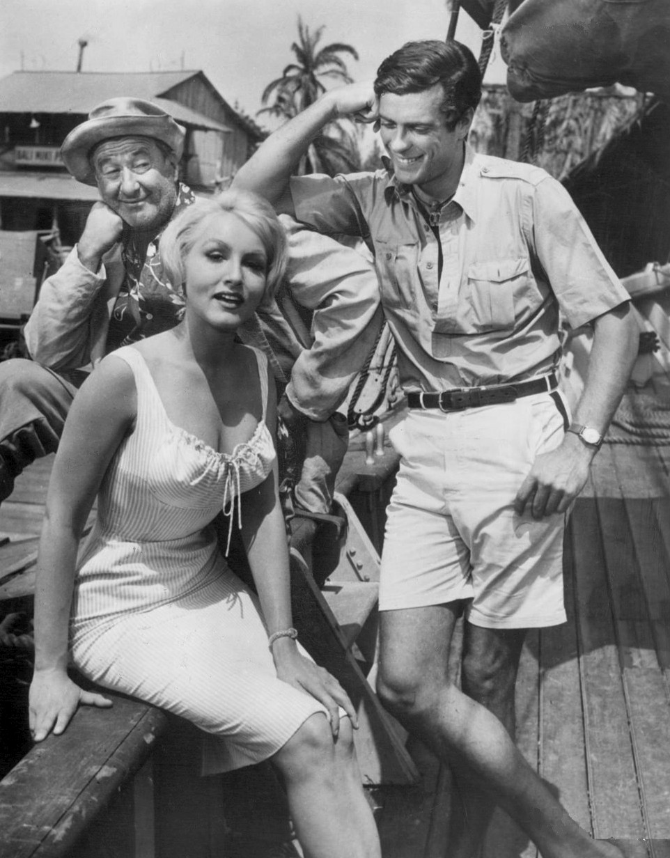 Photo of George Tobias, Julie Newmar and Gardner McKay from the television series Adventures in Paradise.